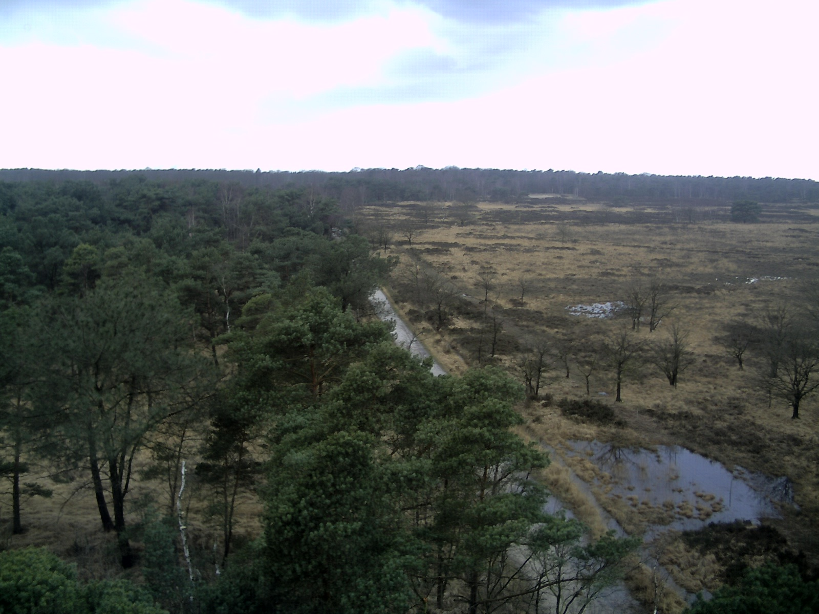 Heath of Kalmthout (Kalmthoutse Heide) from watchtower.